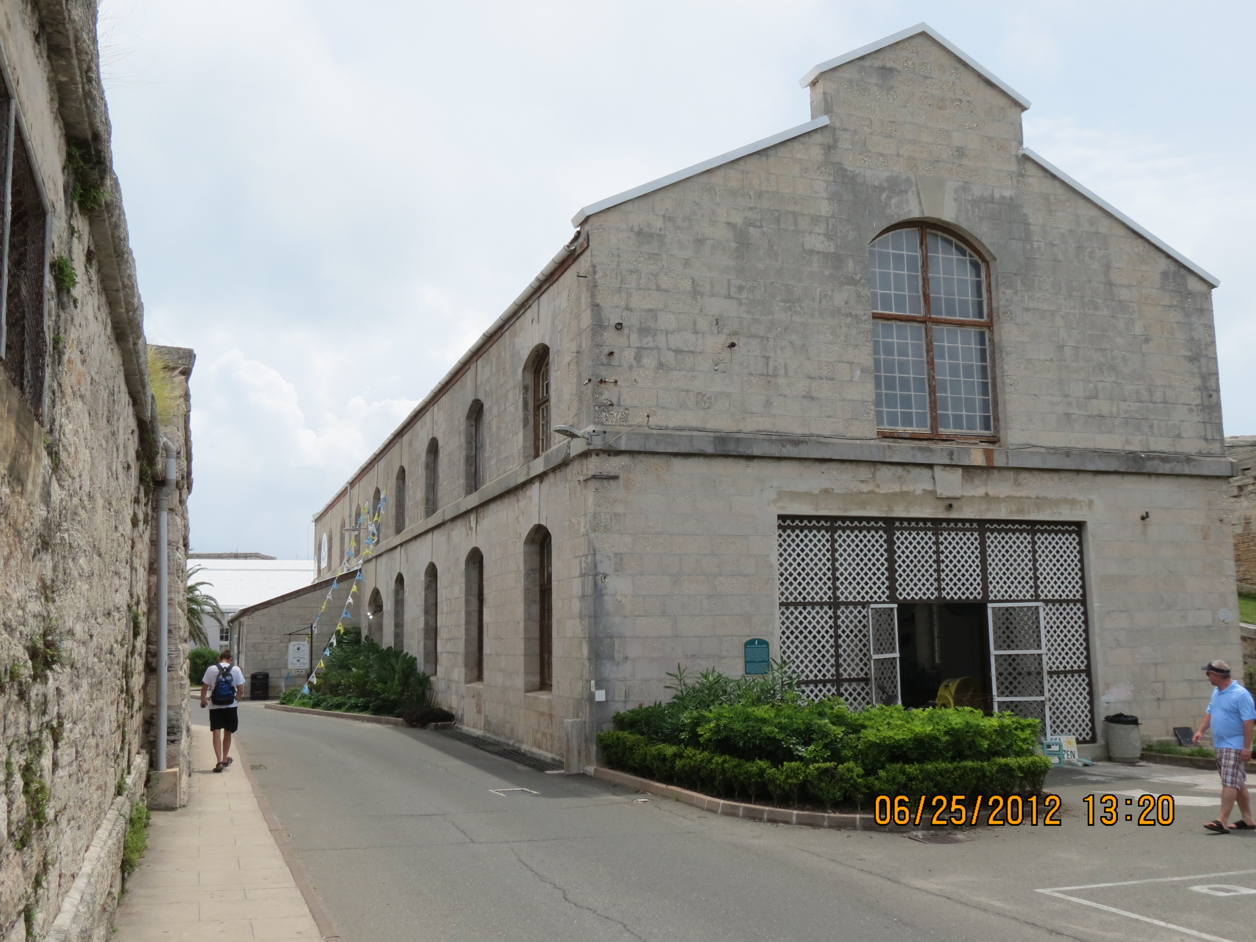 Side street near Rum Cake factory